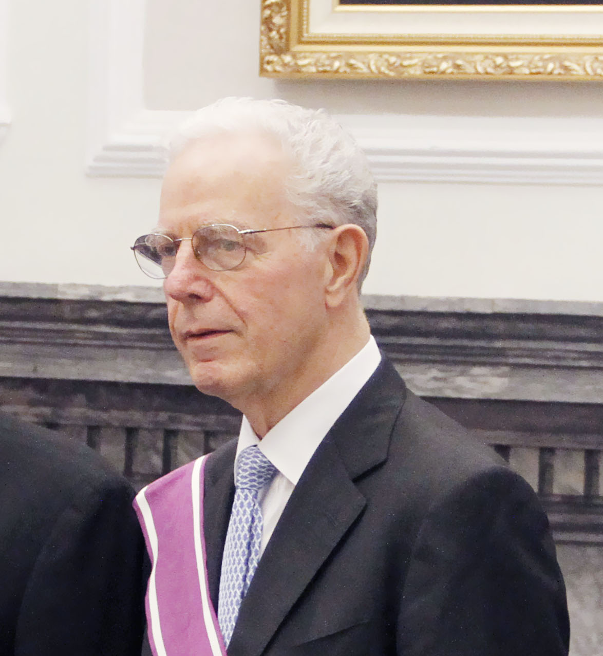 104年3月17日 馬英九總統主持贈勳典禮-頒授美國哈佛大學蕭慶倫博士、普林斯頓大學經濟學教授任赫德博士「紫色大綬景星勳章」 President Ma bestows honors on Harvard University Professor William Ching-Lung Hsiao and Princeton University Professor Uwe Ernst Reinhardt. (2015/03/17)